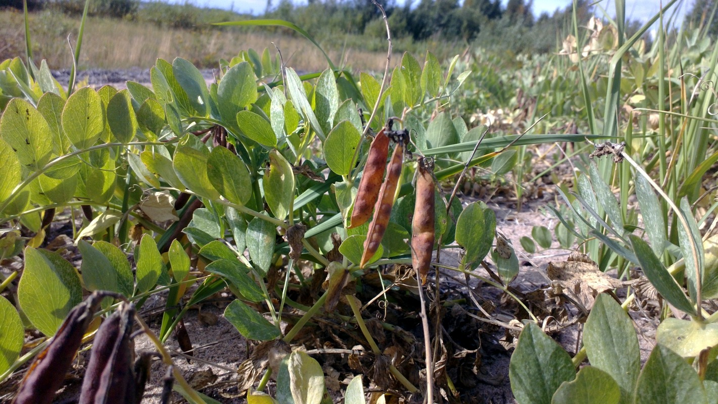 Lathyrus japonicus, photo taken in Ajos, Kemi (Finland) 27.8.2012 by Henripekka Kallio.